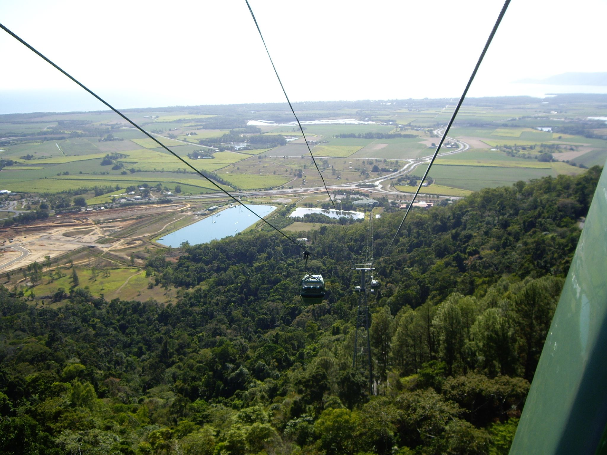 Skyrail Rainforest Cableway, looking down onto the Macalister Range, Smithfield (with the lake), towards Machan Beach, 2007